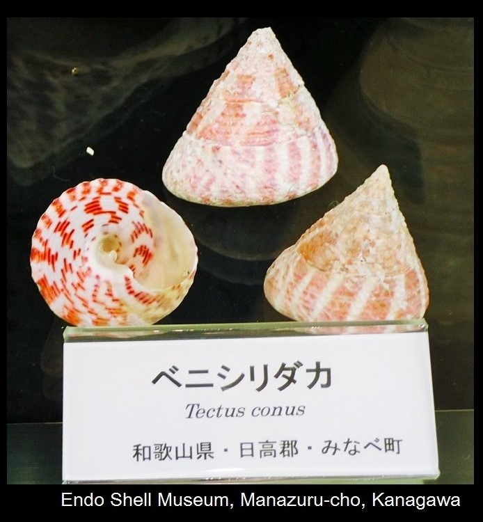 Tectus conus from Minabe-cho Wakayama pref., exhibited at Endo Shell Museum in Manazuru-cho Kanagawa pref.